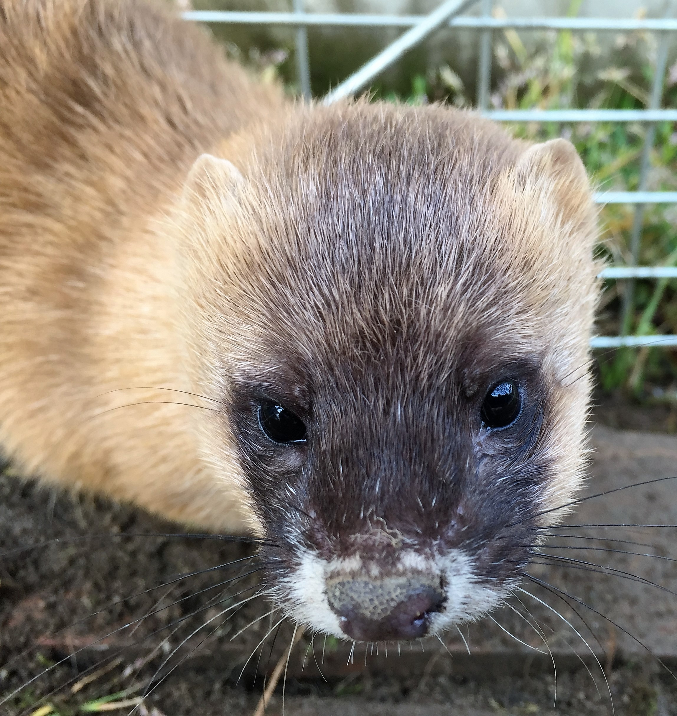 Mustela sibirica hiroshima, JAPAN